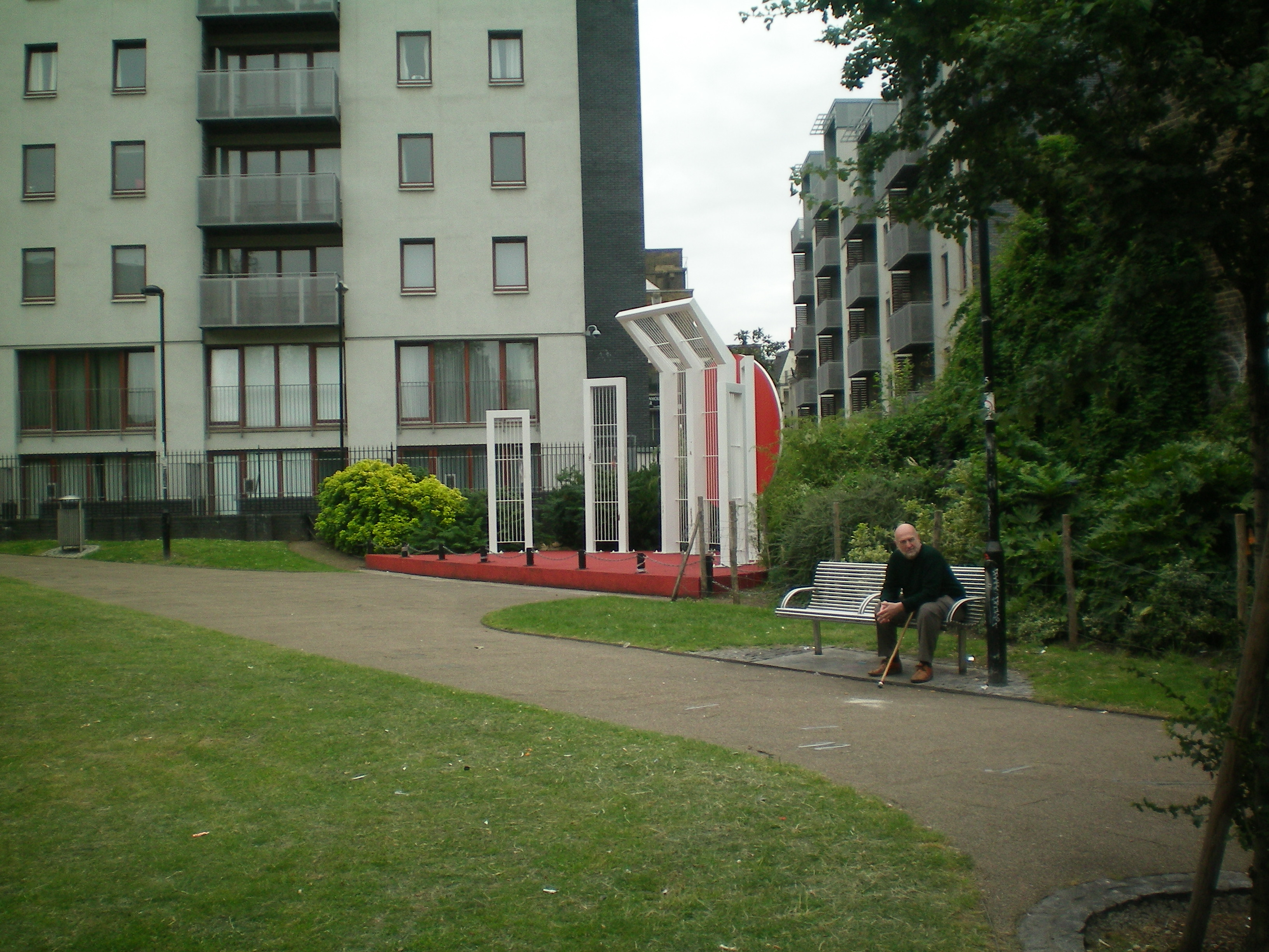 The Shaheed Minar at Altab Ali Park, Whitchapel (Adler Street), London.